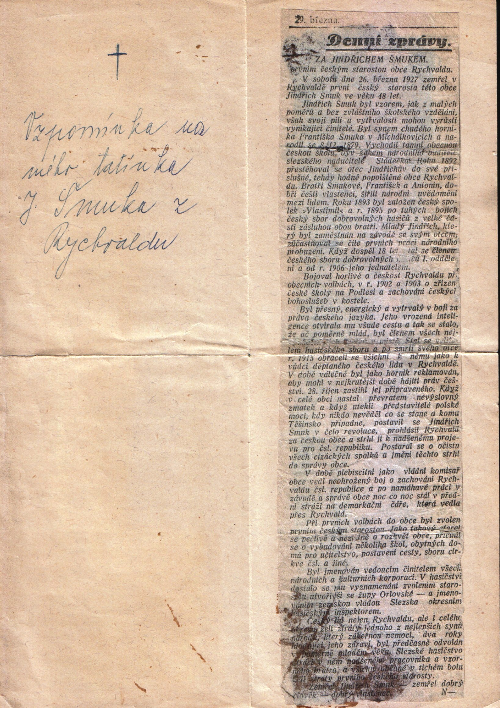 Denní zprávy - za Jindřichem Šmukem